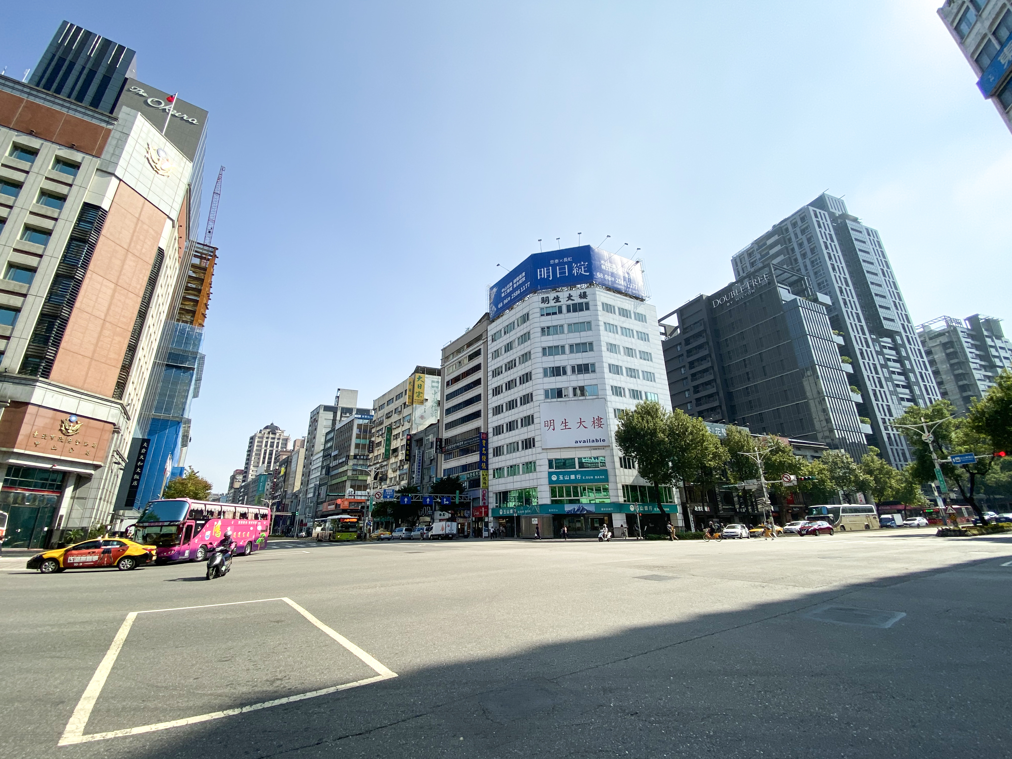 Nanjing West Road and Zhongshan North Road intersection